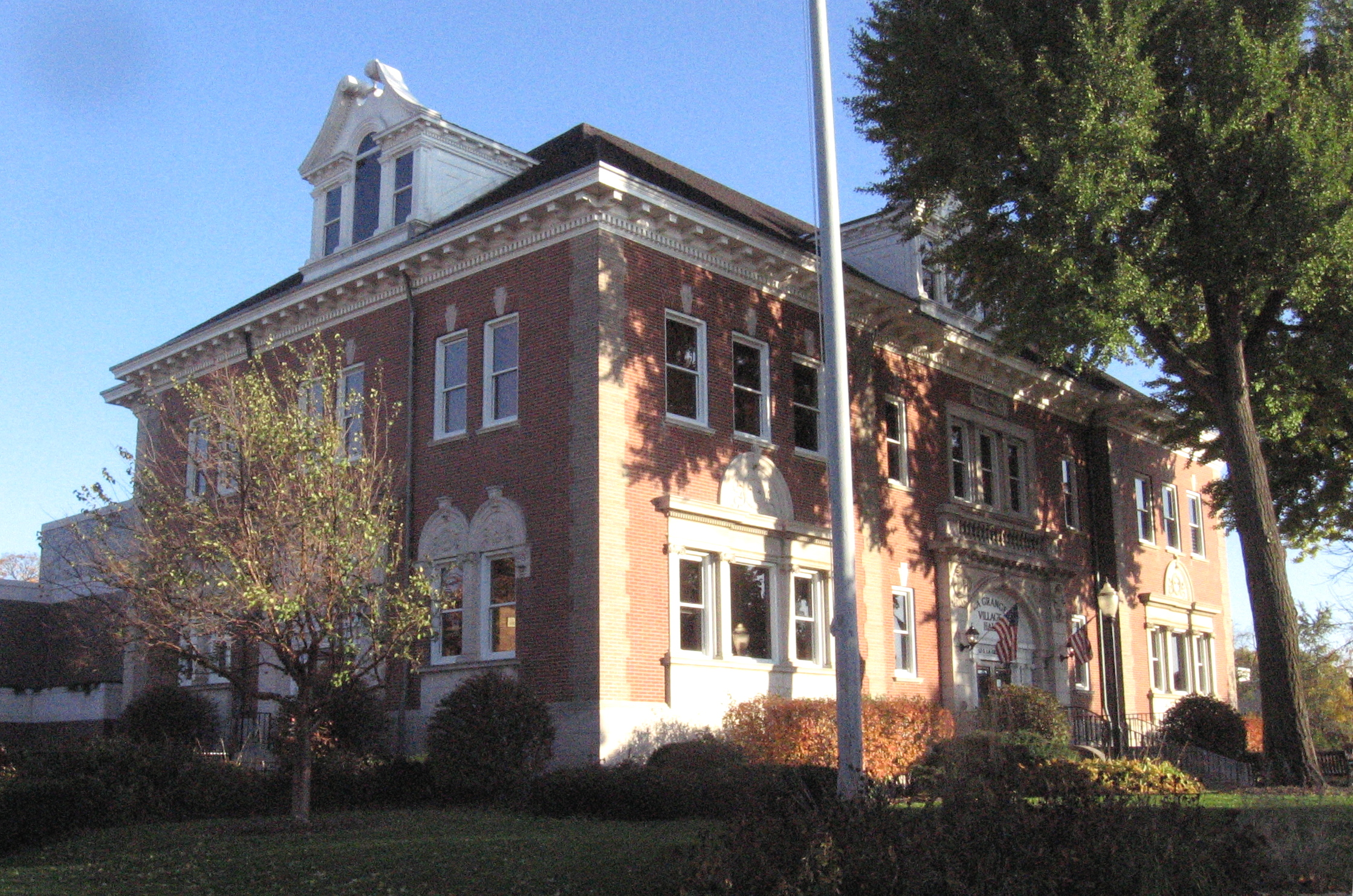 The LaGrange Illinois Village Hall. This structure is on the USA National Register of Historic Places